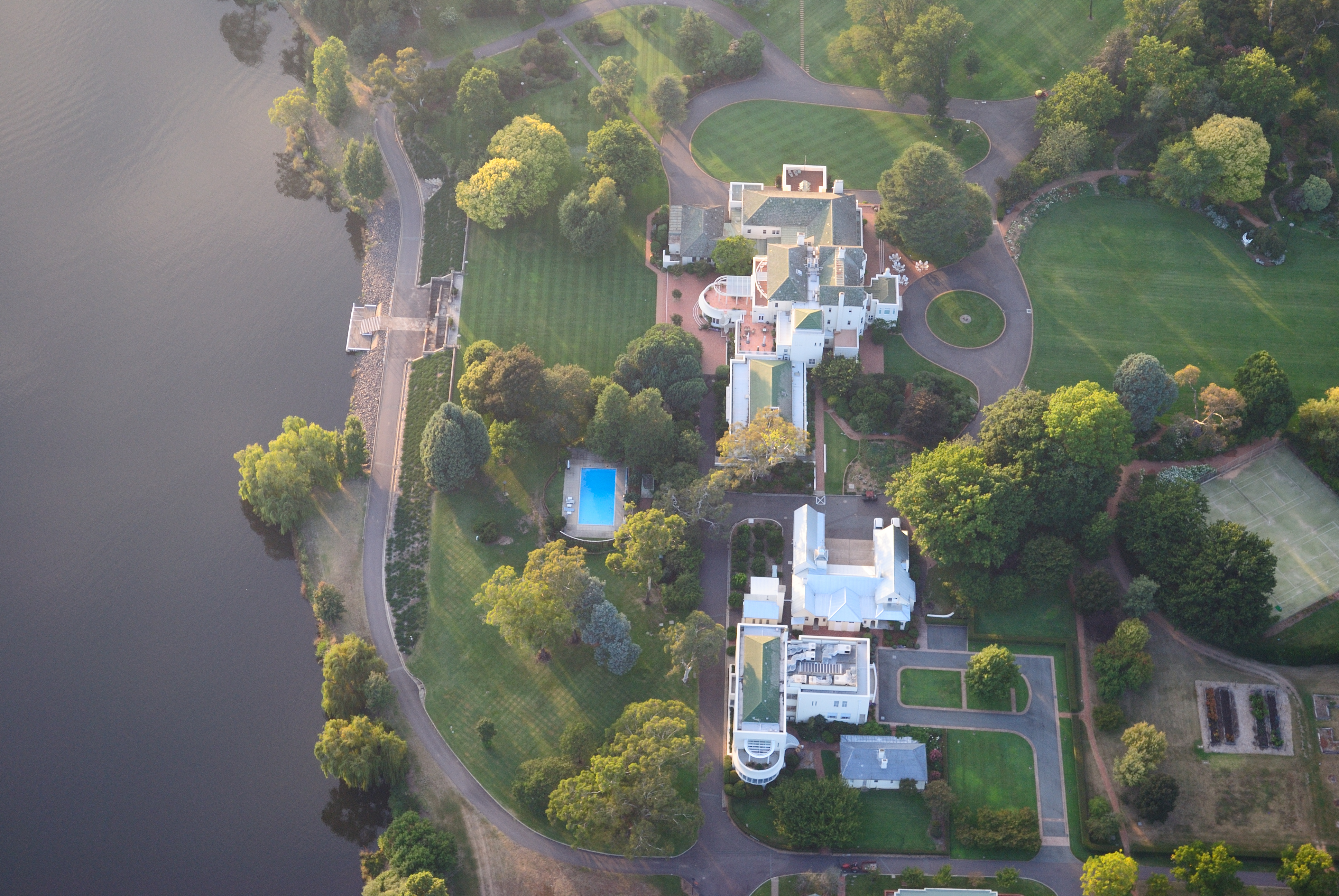 An aerial shot of Government House, Canberra.